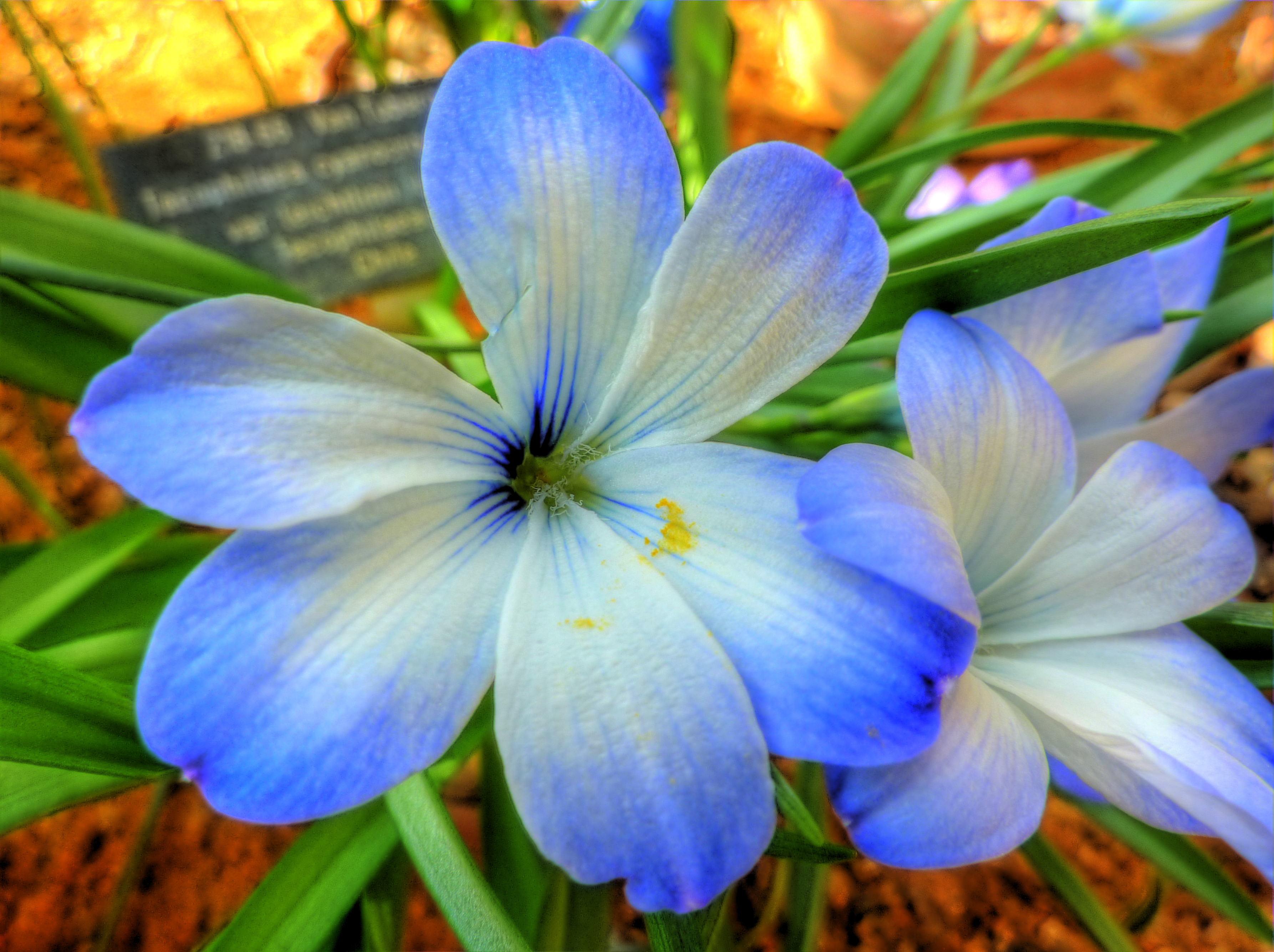 Taken in the Cambridge University Botanic Garden.